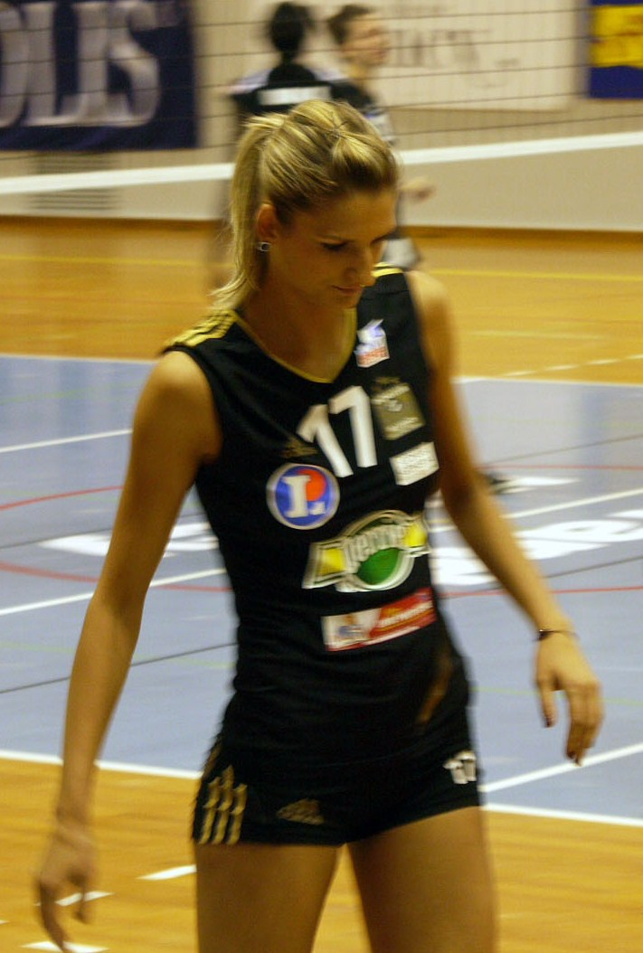 French volleyball player Jelena Lozančić